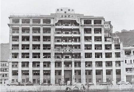 Old Luk Kwok Hotel in Hong Kong history of 1933